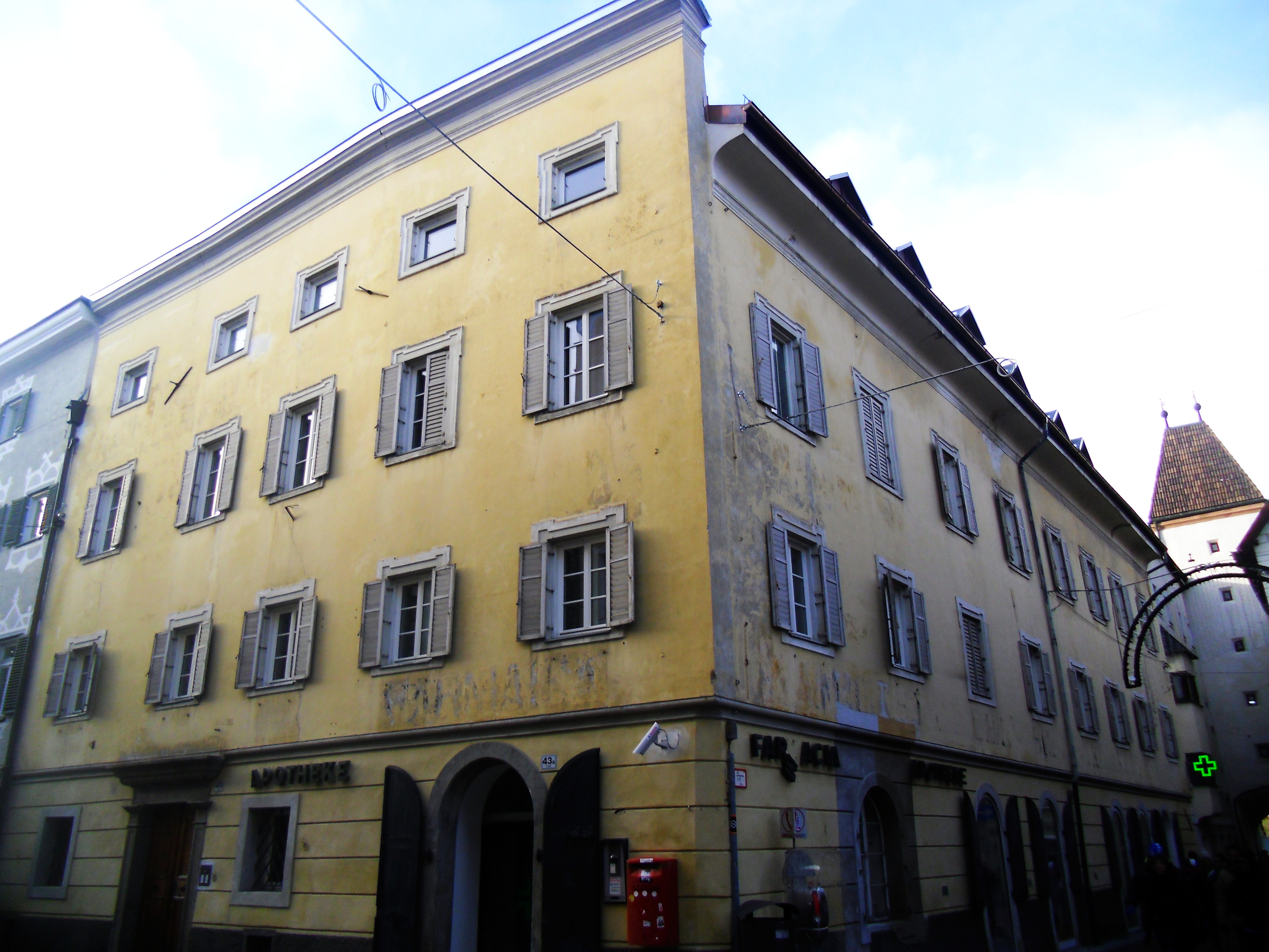 Stadtgasse 43